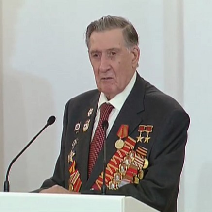 Vladimir Dolgikh, a Soviet politician.